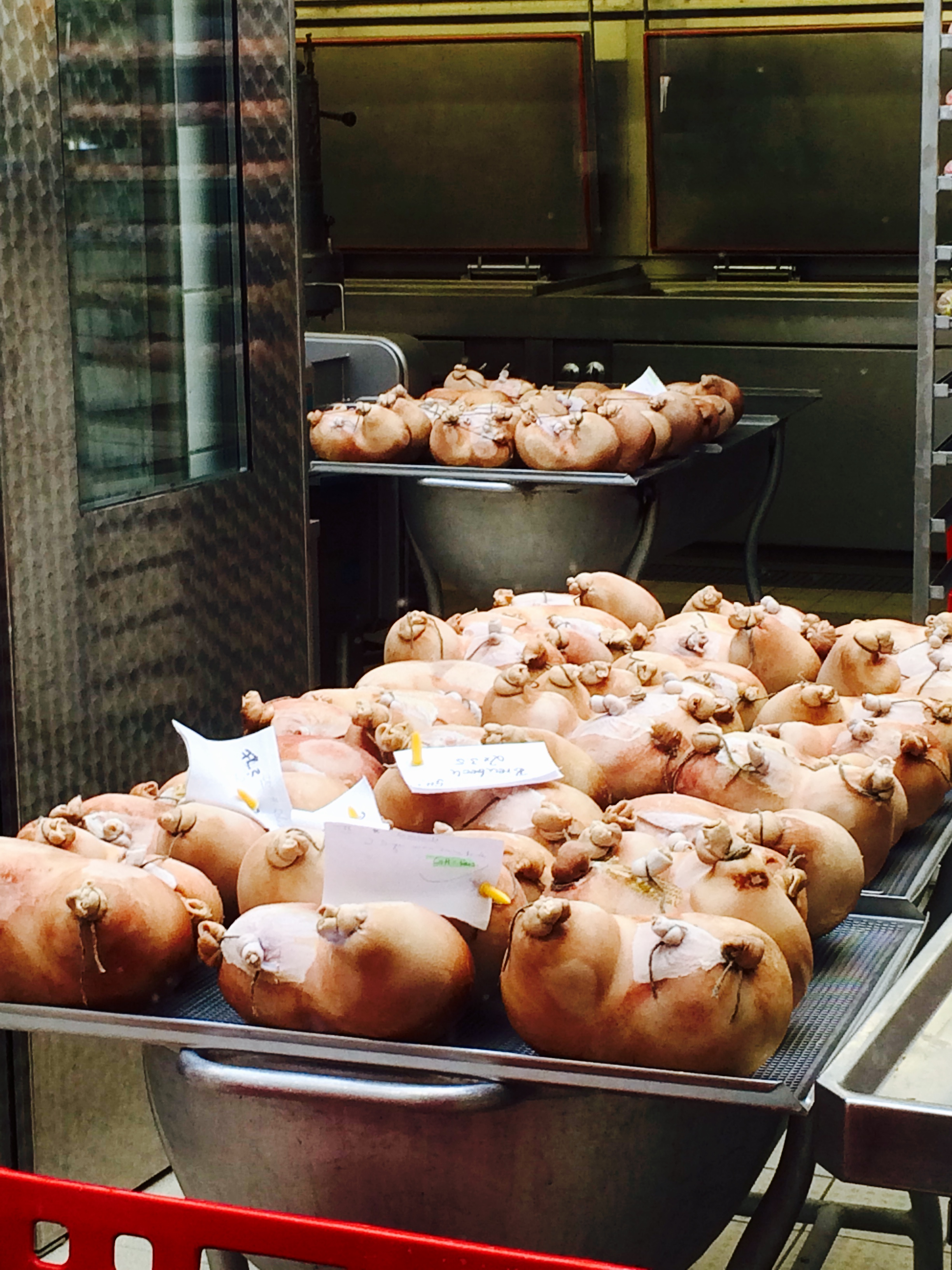 Pfälzer Saumagen. Saumagen, a Palatinate specialty (stuffed pig stomach)